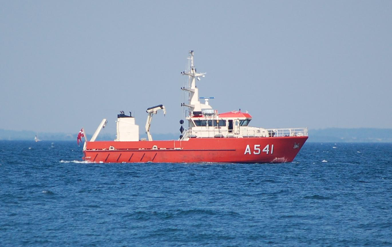 A541 Birkholm of the danish navy Holm-class.